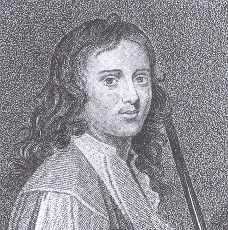 Michael Mohun (1625 — 84), British actor.